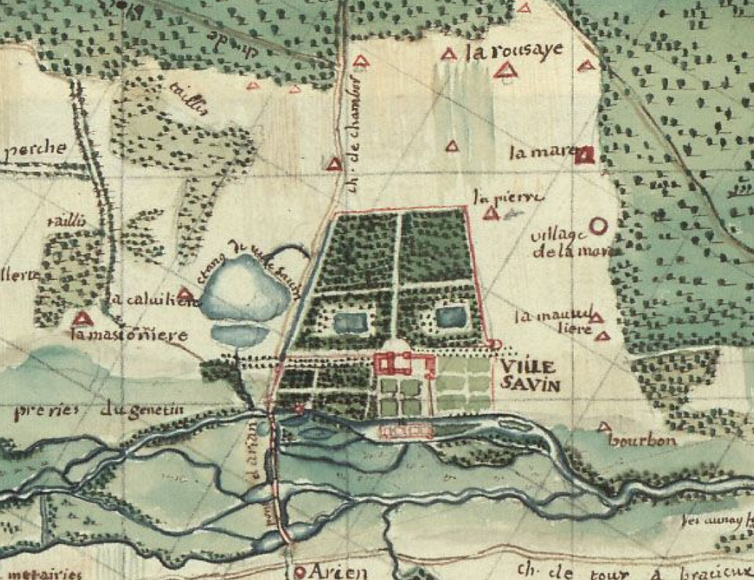 Château de Villesavin in Tour-en-Sologne, old plan